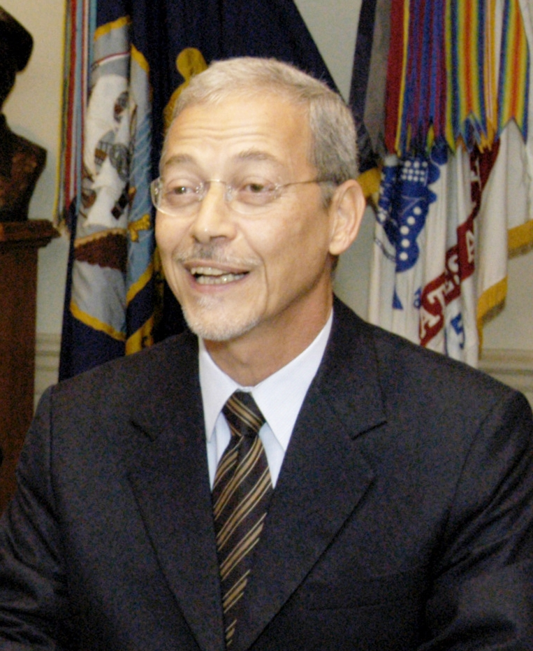 José Viegas Filho, cropped from photo: 030710-D-9880W-036_screen Brazilian Minister of Defense Jose Viegas (right) meets with Secretary of Defense Donald H. Rumsfeld (foreground) in the Pentagon on July 10, 2003. The two defense leaders are meeting for the first time to discuss a broad range of security issues of interest to both nations. Brazilian Ambassador to the United States Rubens Barbosa (center, at the table) joined Viegas and Rumsfeld in the talks. DoD photo by R.D. Ward. (Released)